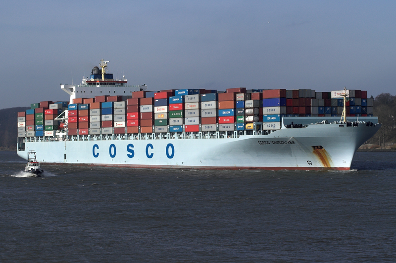 Cosco Vancouver IMO Number: 9285691 MMSI Number: 636090750 Callsign: A8EO8 Length: 299.0m Beam: 42.0m